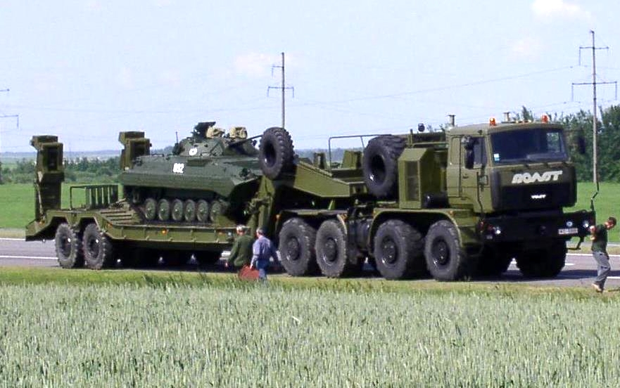 MZKT-742952